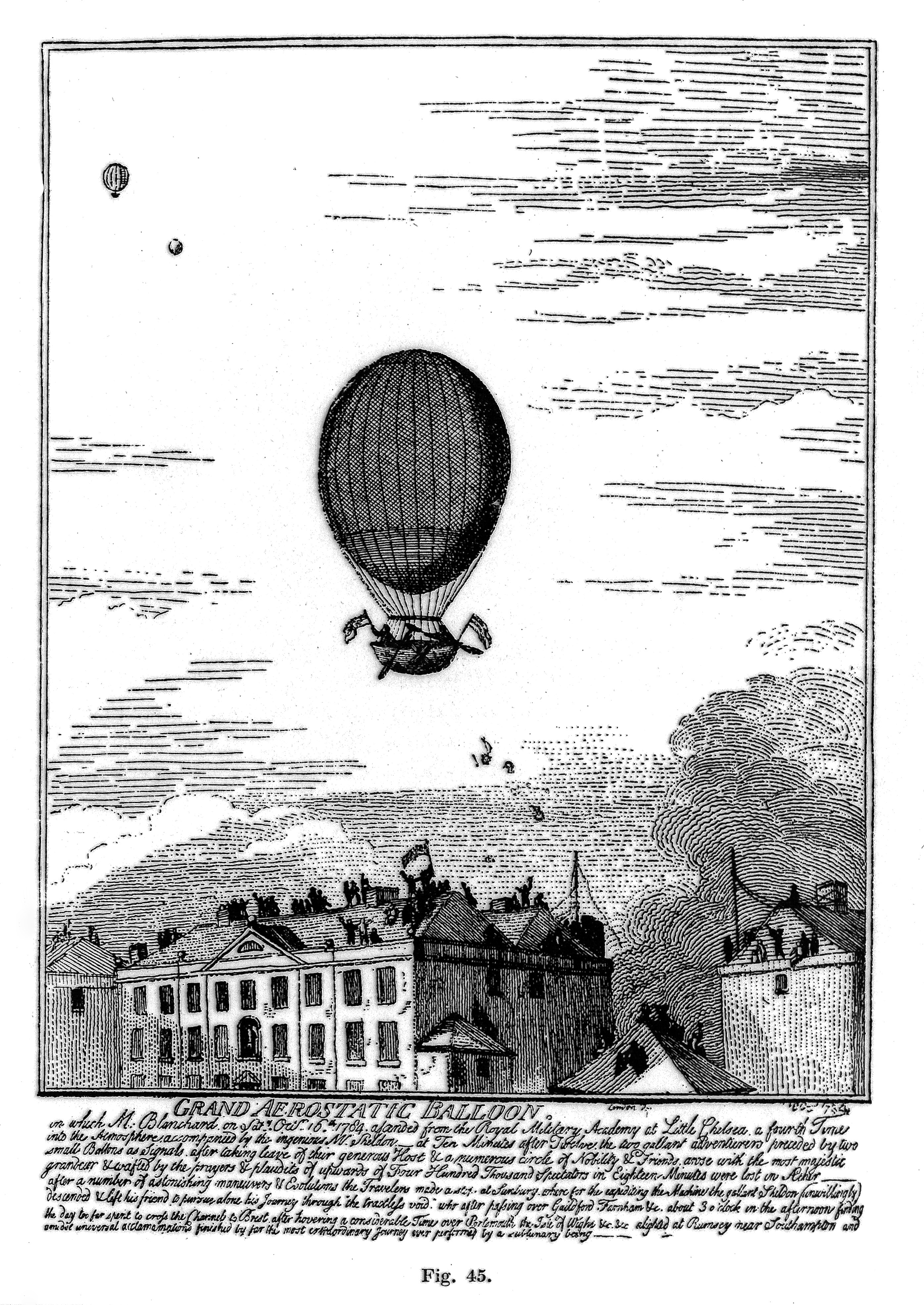 Contemporary engraving of Blanchard's Balloon Ascent 1784. Wellcome Images Keywords: Transport, aerostats, pilot balloons